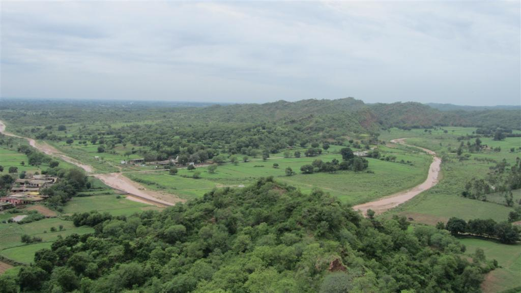 Jayanti Rao visible from temple